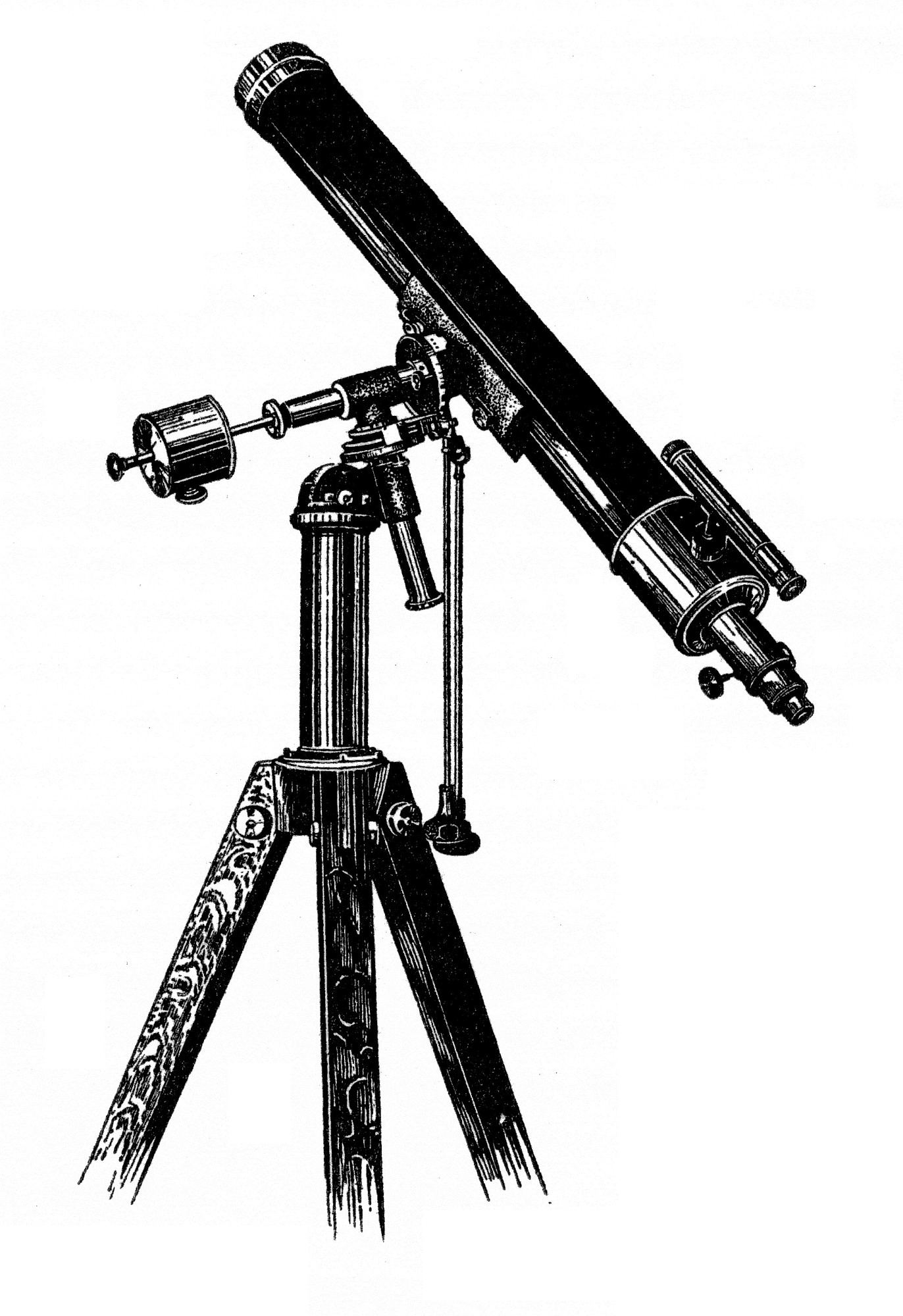 Astronomical telescope